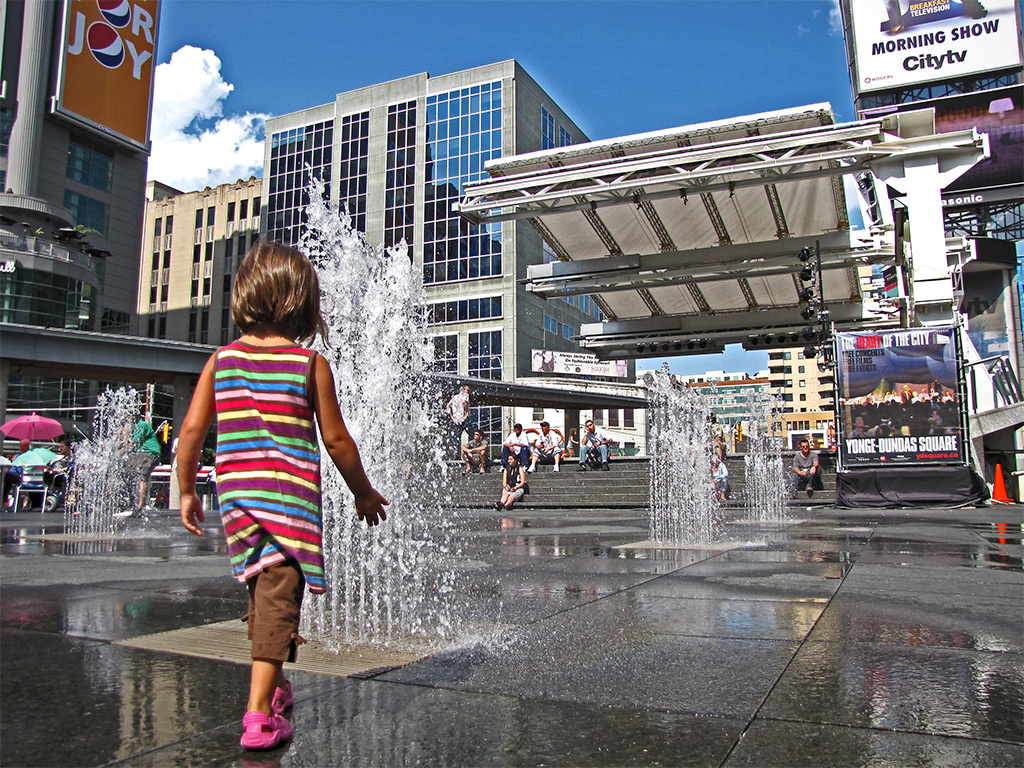 A child and the fountains in Yonge Dundas Square. Toronto, Canada.